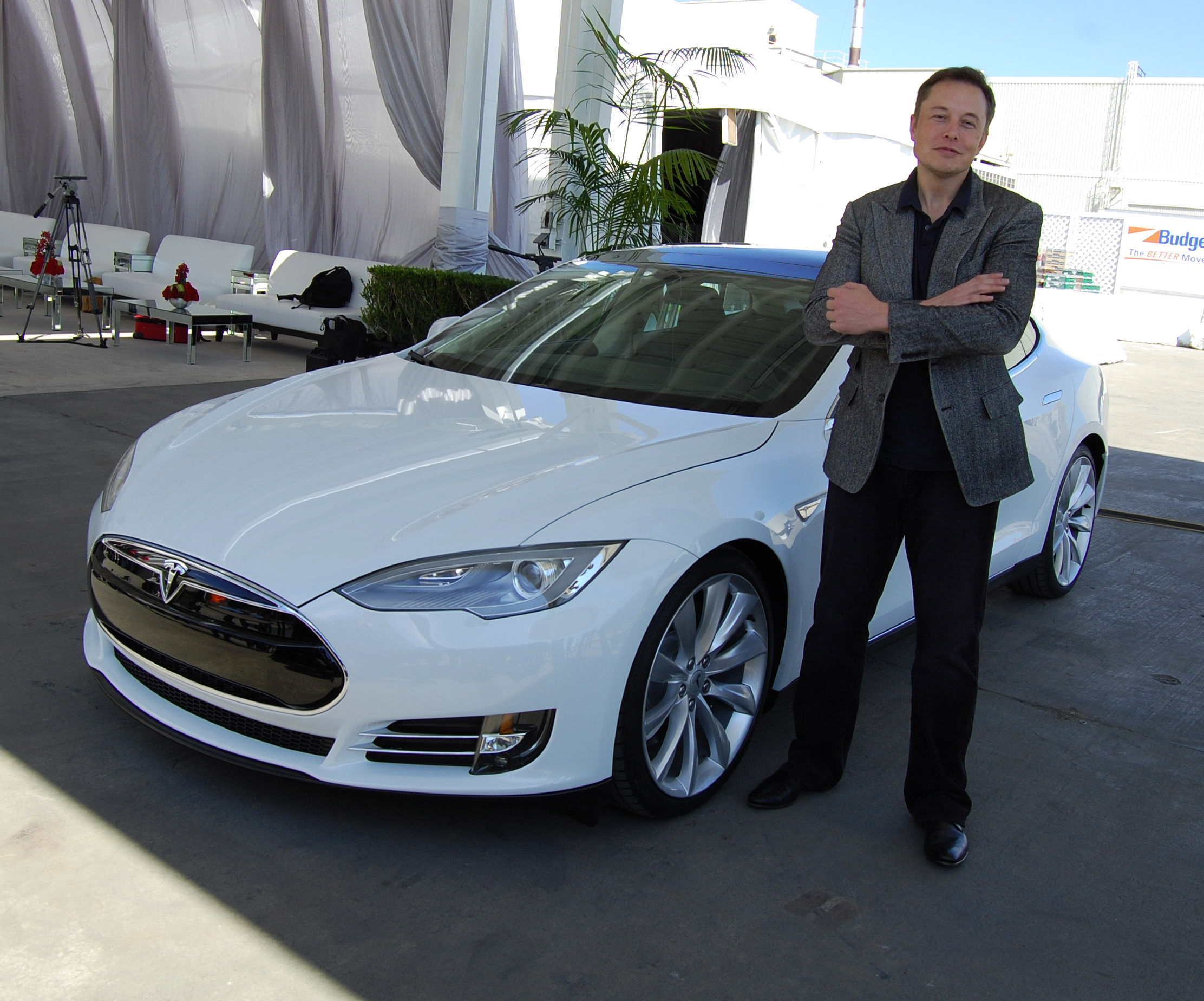 Elon Musk, Tesla Factory, Fremont (CA, USA) in 2011